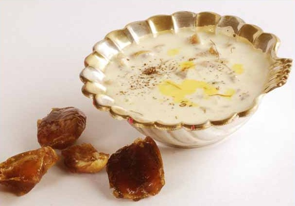 Kheer is a fluid dessert, made from milk and grains such as rice, vermicelli, or other starch solids. Dry fruits, sweet aromatic spices are typically added to enhance the experience. India